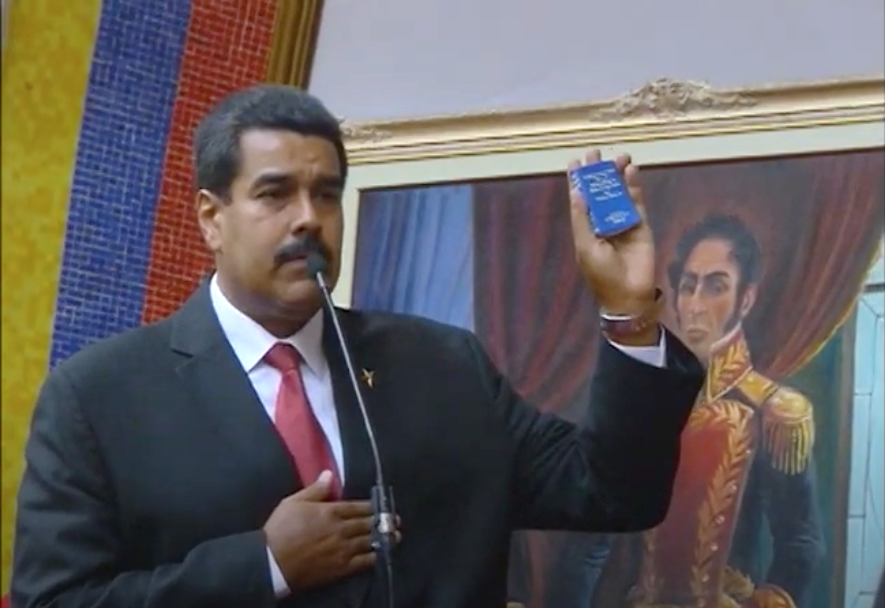 Nicolás Maduro being sworn in as president of Venezuela